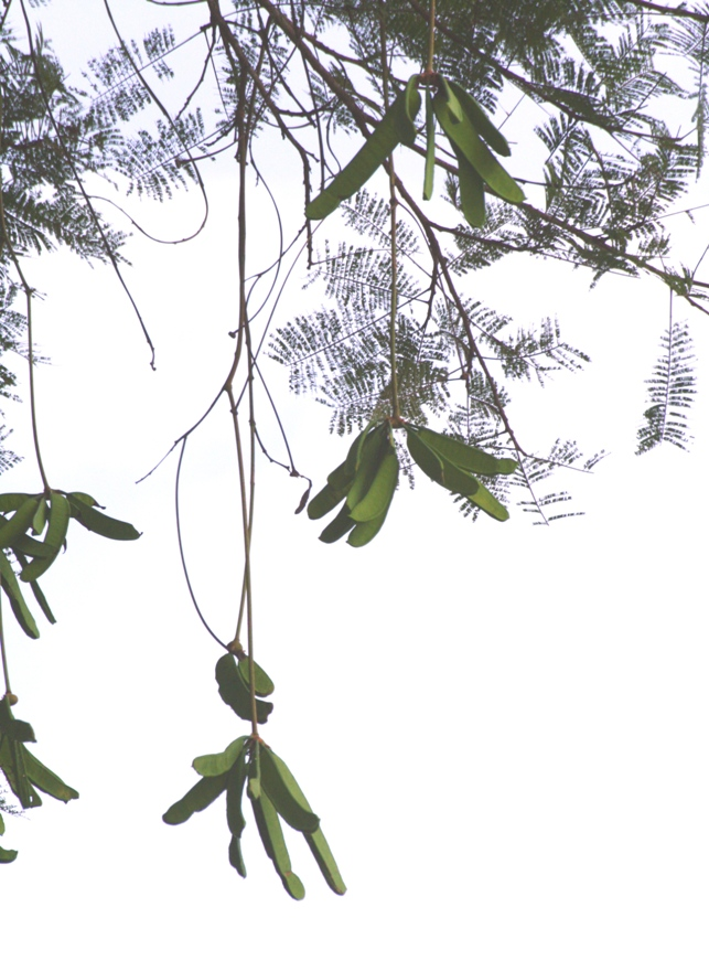 Infrutescence of Parkia pendula, Rio Caura, Venezuela